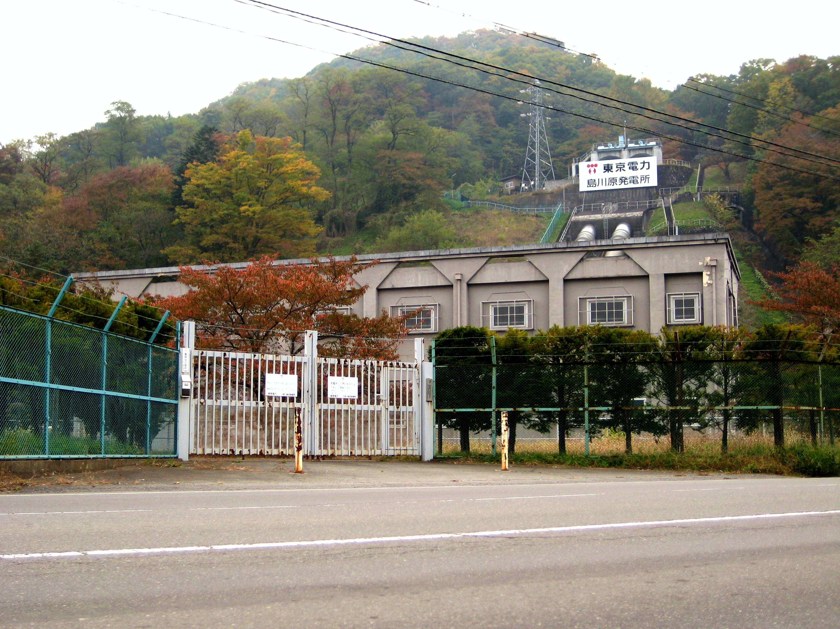 Shimagawara power station.